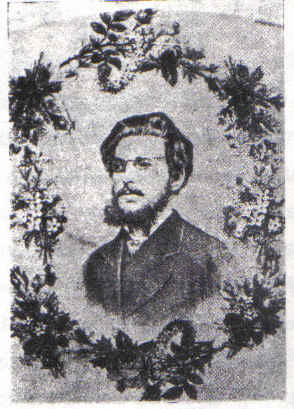 The Brazilian poet Lobo da Costa (1853-1888), photo in public domain, extracted from Pelotas Memorial